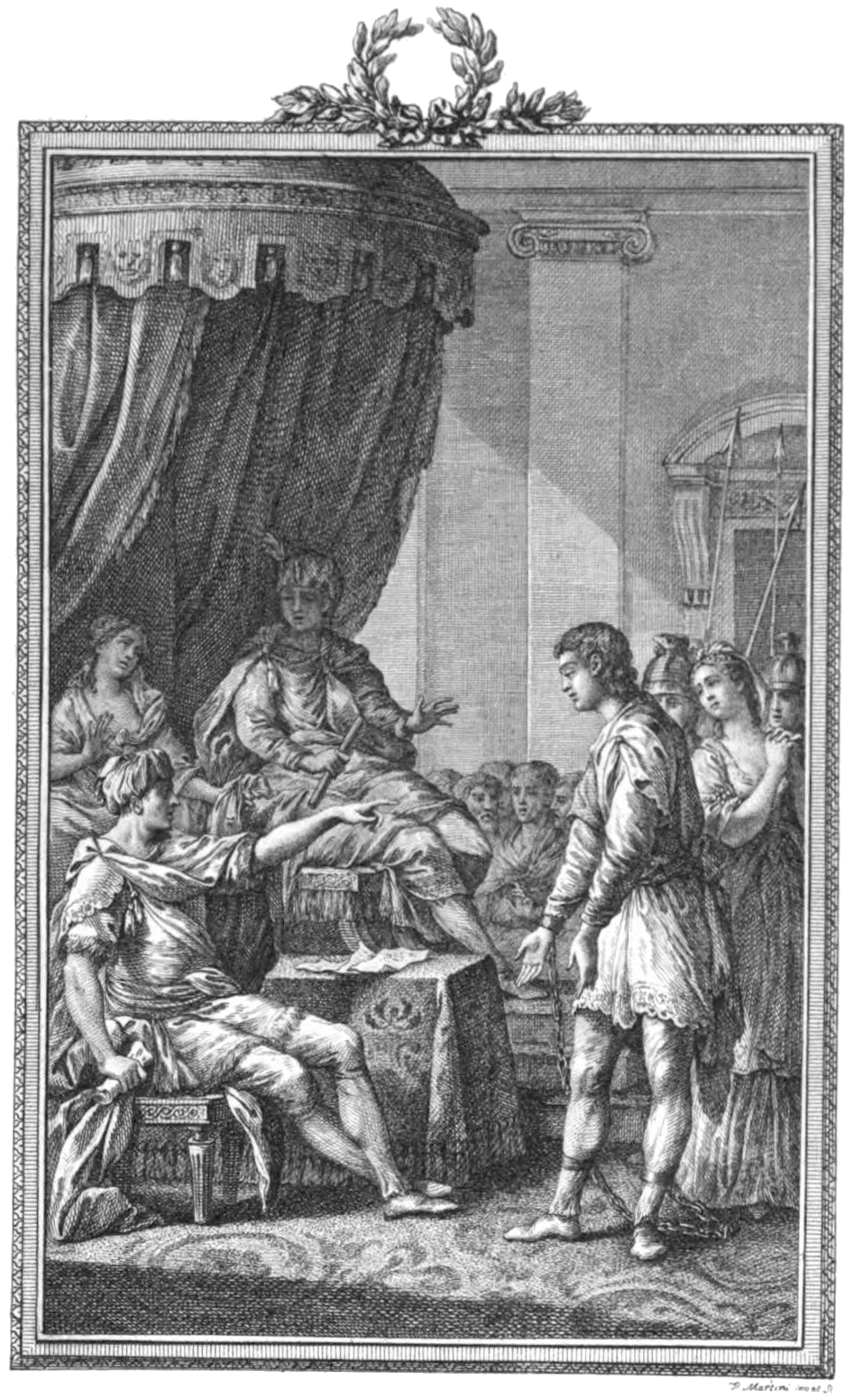 Metastasio - Artaserse, Atto II, Scena XI. „Io condanno il mio figlio: Arbace mora“